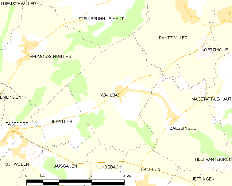 Map of French municipality